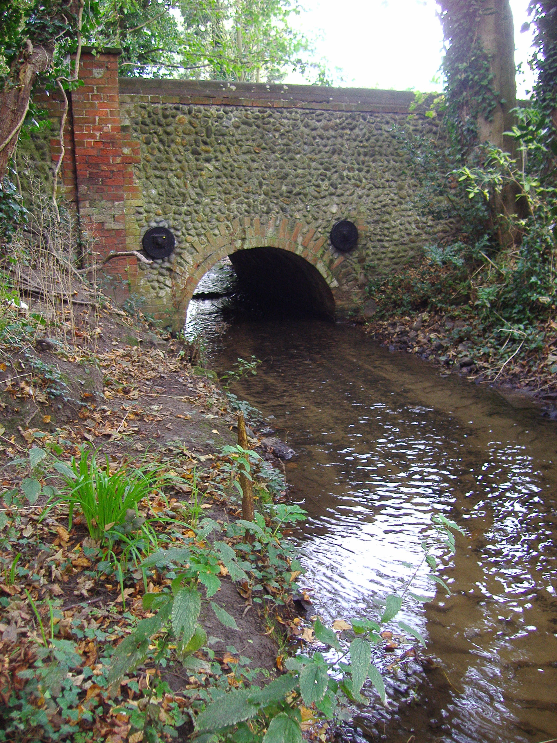 Bridge over the river Mun at Mundesley 8th October 2007